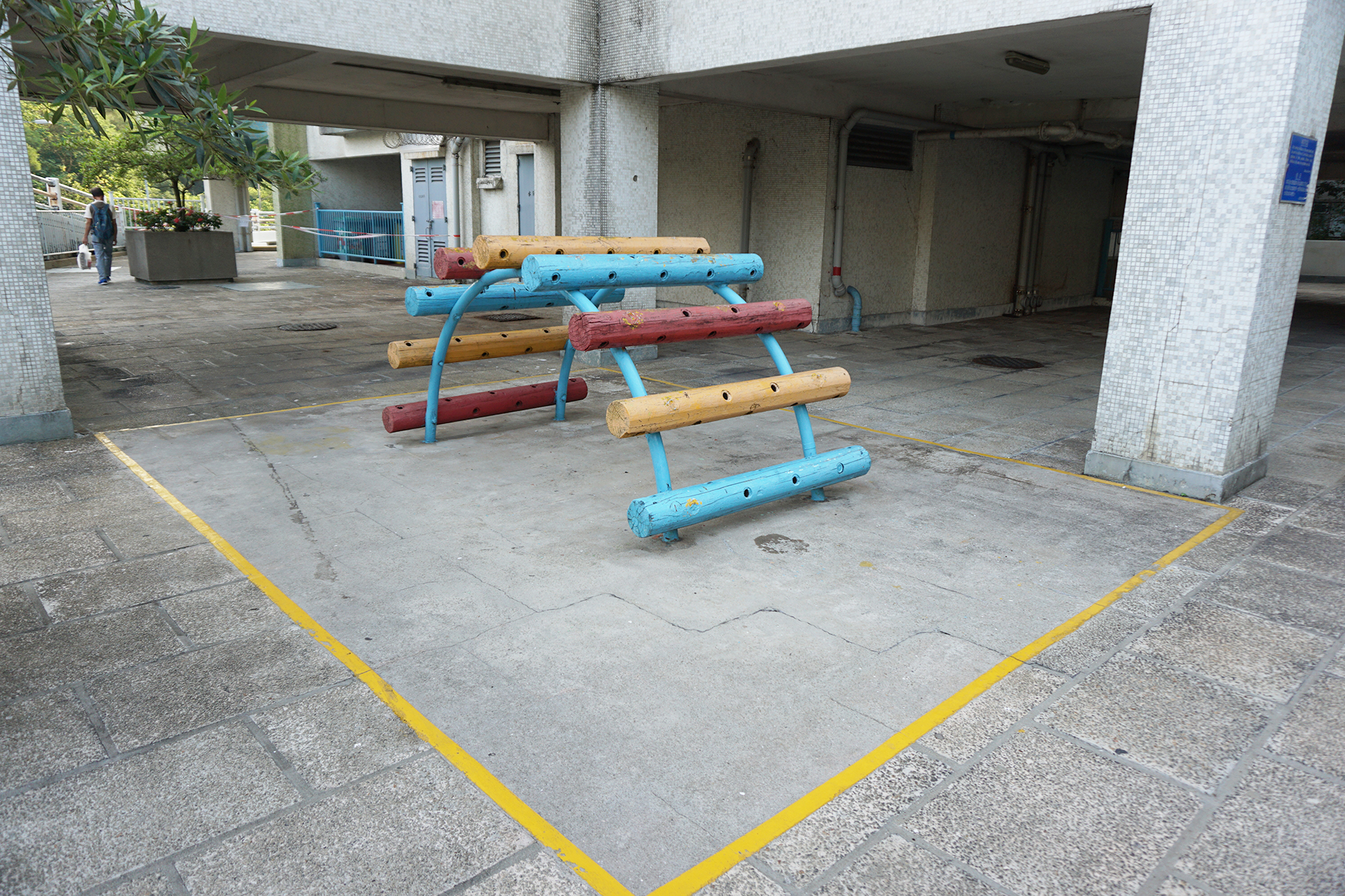 Ching Lai Court in Mei Foo, Hong Kong.